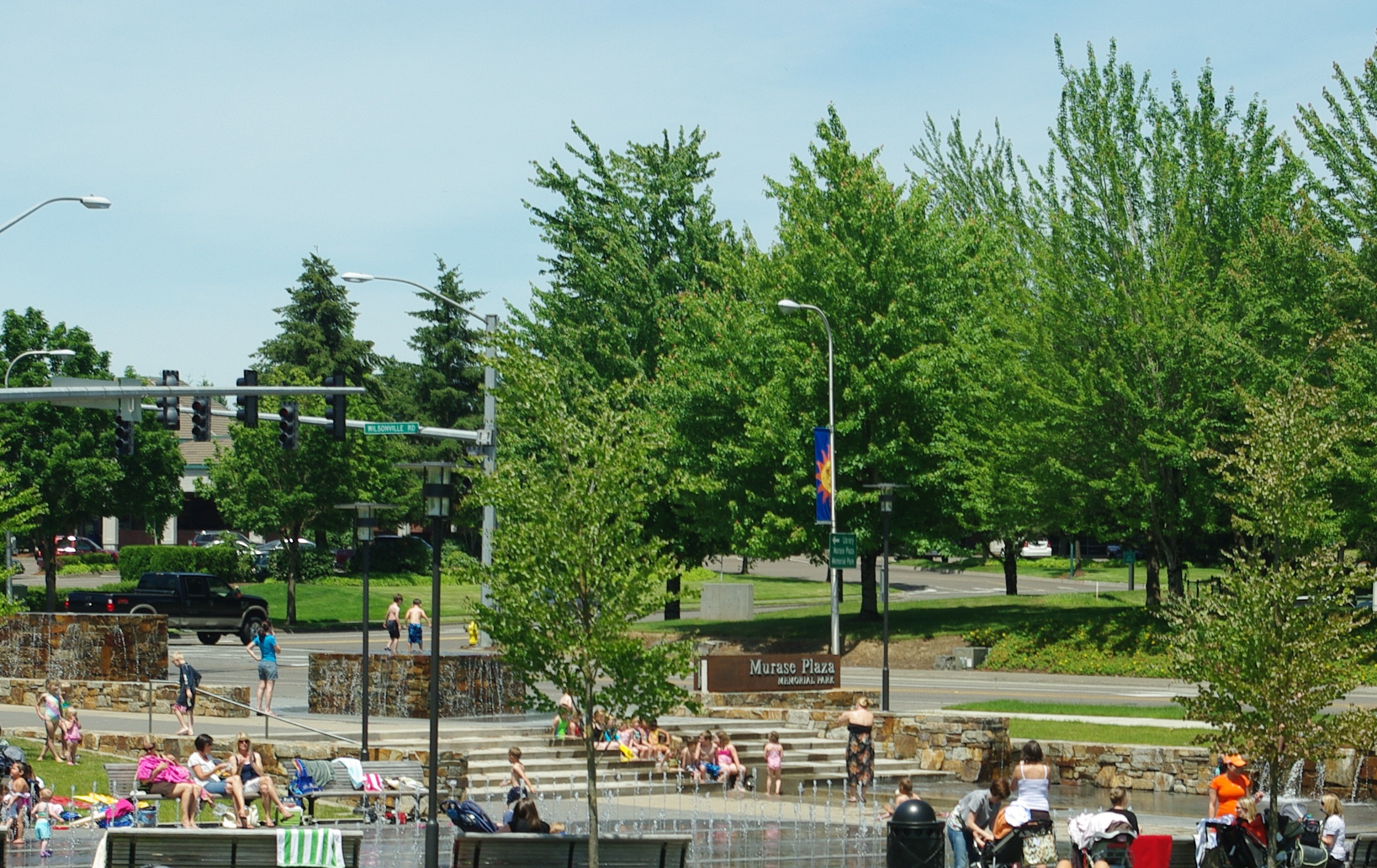 Water feature at Wilsonville Memorial Park in Wilsonville, Oregon